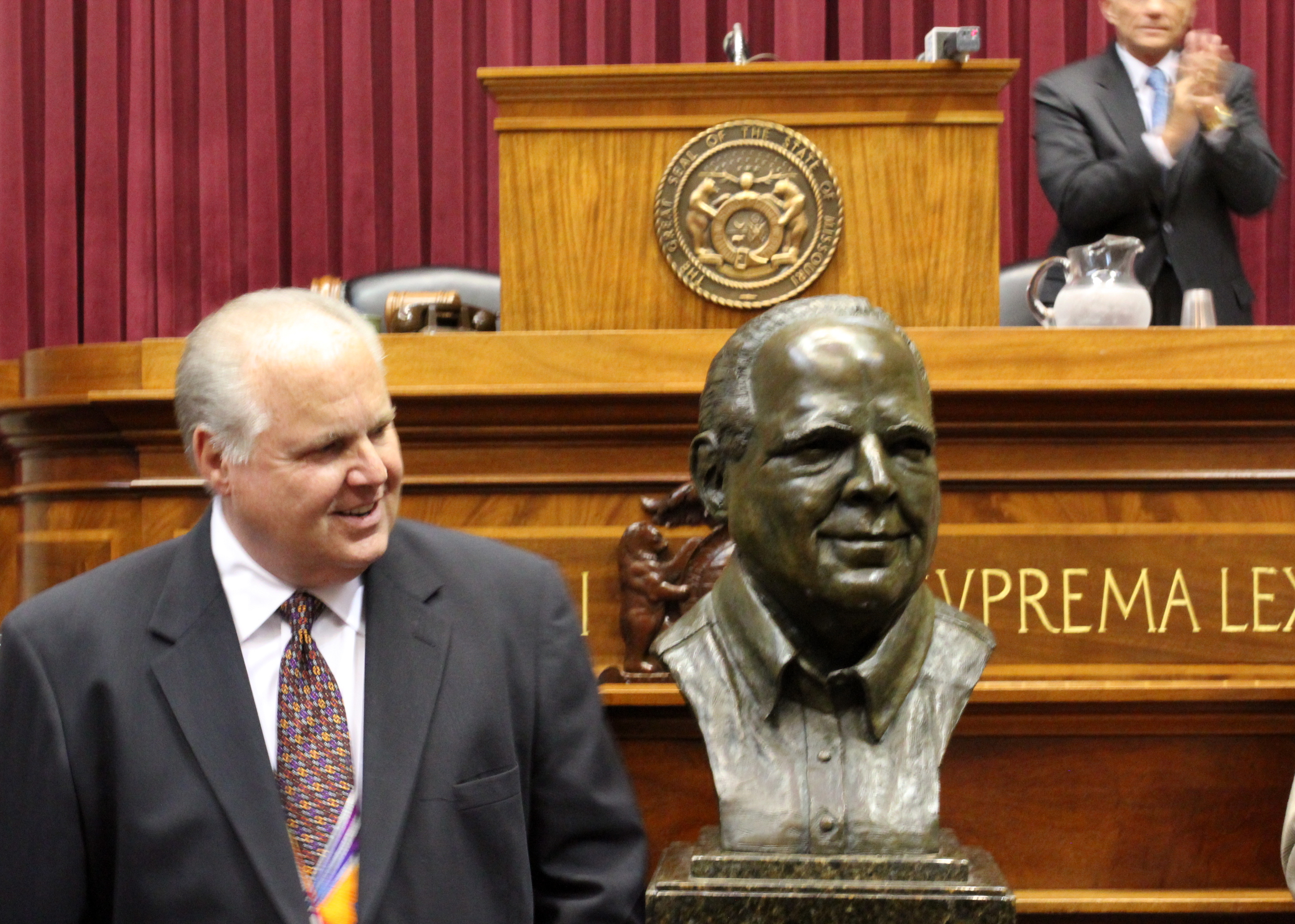 Rush Bust 5-14-2012 12-42-36 PM